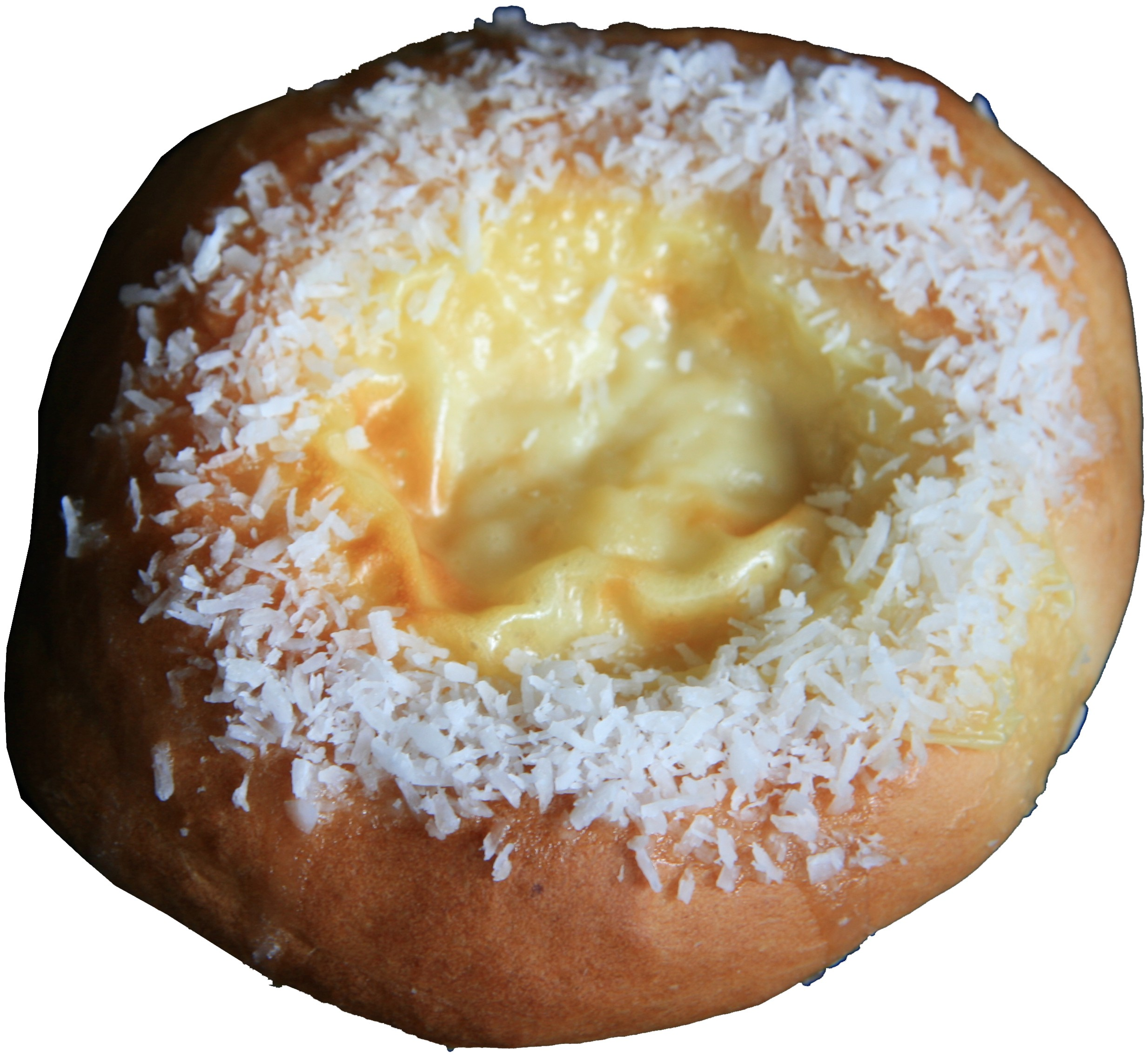 Norwegian burn called Skolebrød or Skoleboller